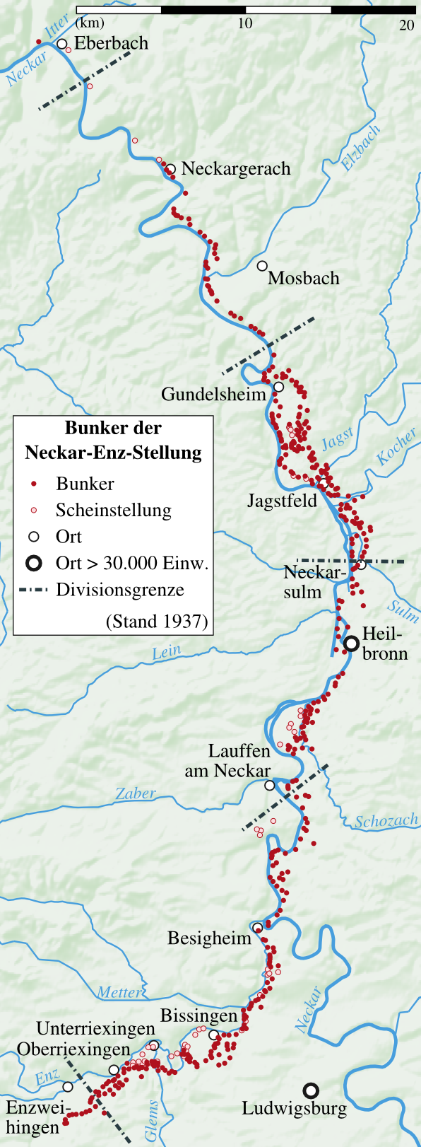 bunkers of the Neckar-Enz line of defence.